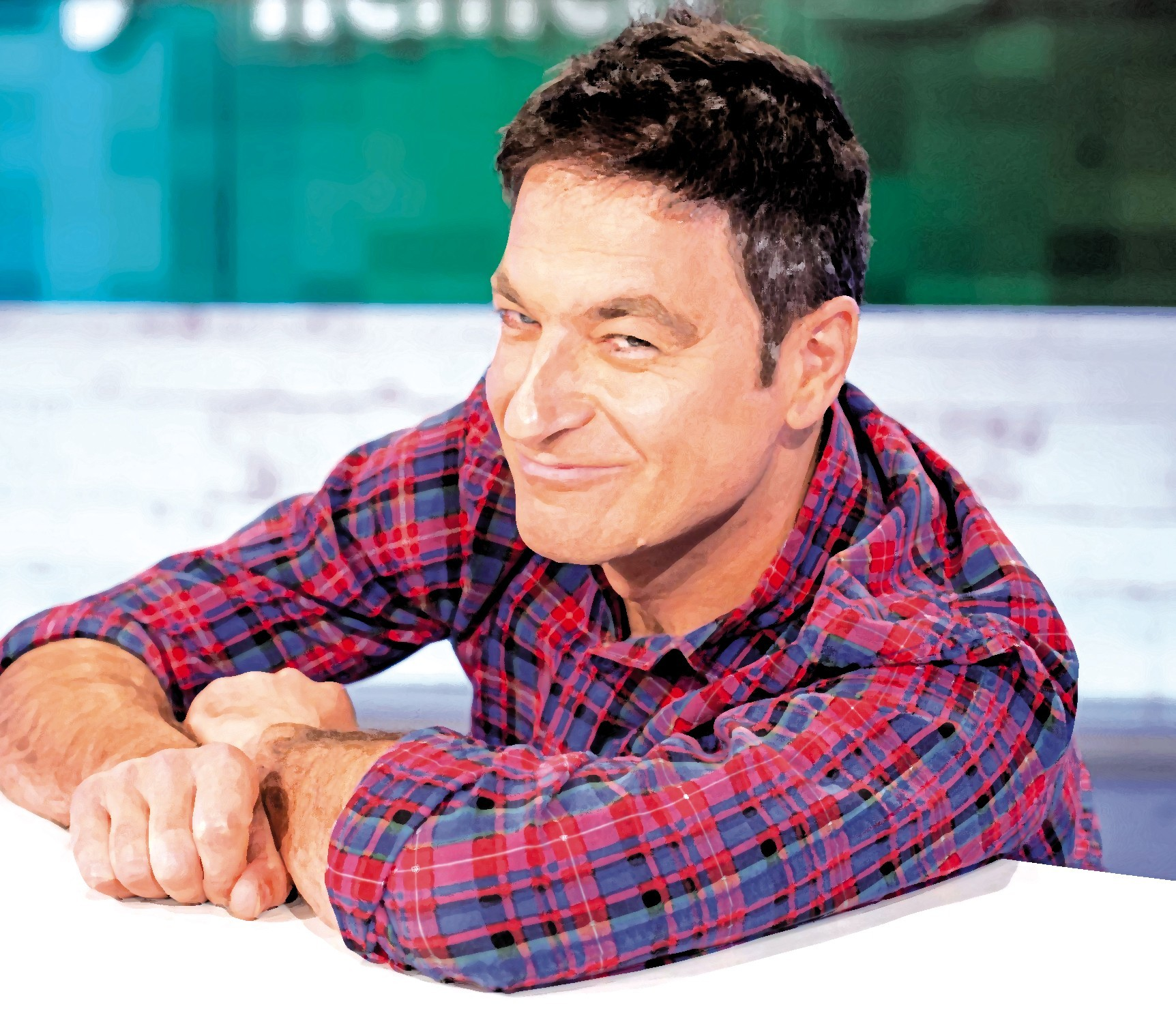 Anjel Alkain basque actor